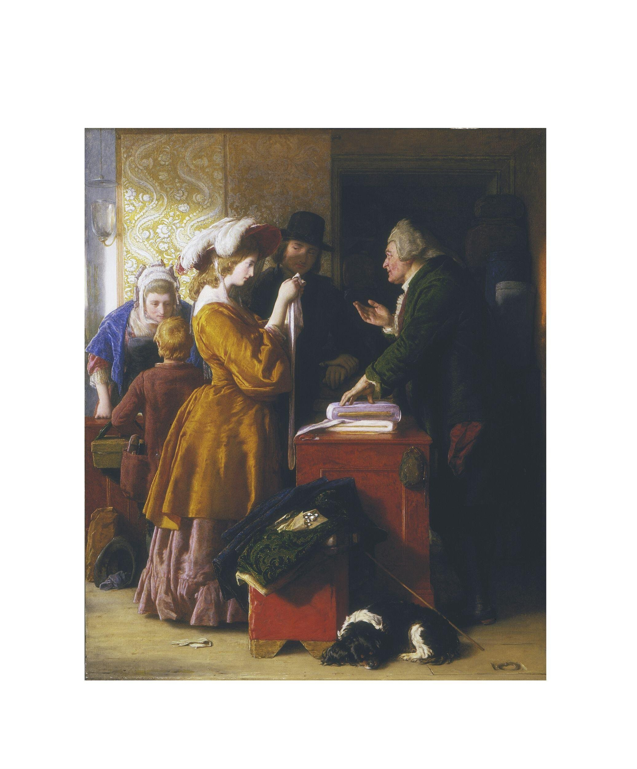 Choosing the Wedding Gown illustrating ch. 1 of The Vicar of Wakefield by Oliver Goldsmith, Victoria and Albert Museum, London, British Galleries, Room 122. Museum number: FA.145[O]